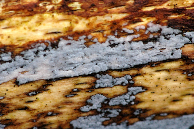 Tulasnella violea from Commanster, Belgium. If you think this is a different taxon, please contact James Lindsey.